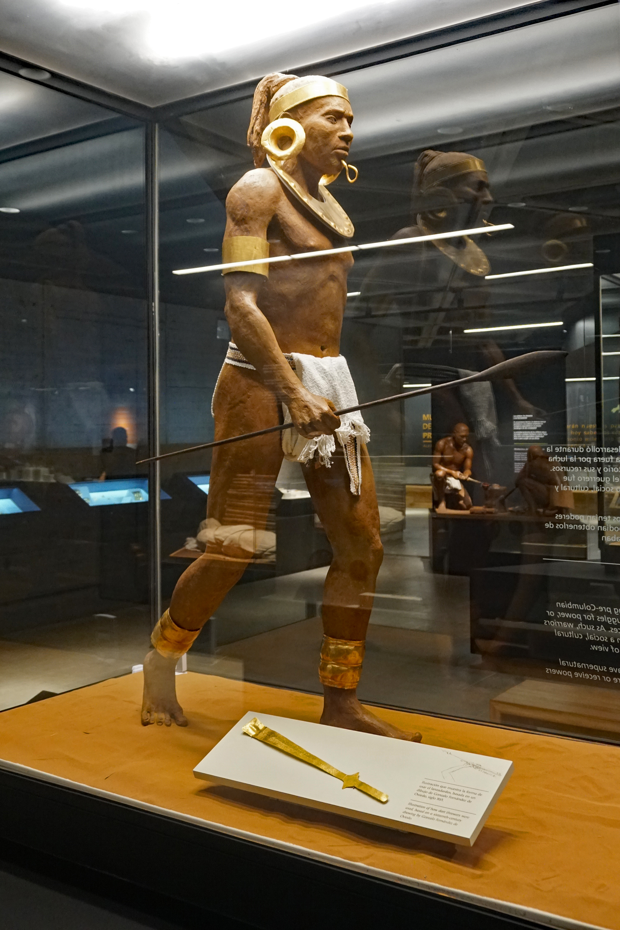 Diorama with a life-size warrior with his costume and all his gold ornaments displayed at the Museo del Oro Precolombino, San José, Costa Rica